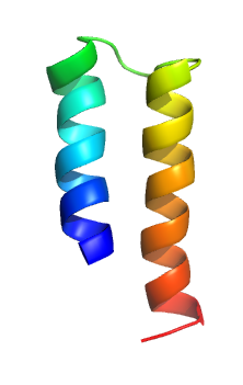 Structure of MERFT. PDB 2h3o